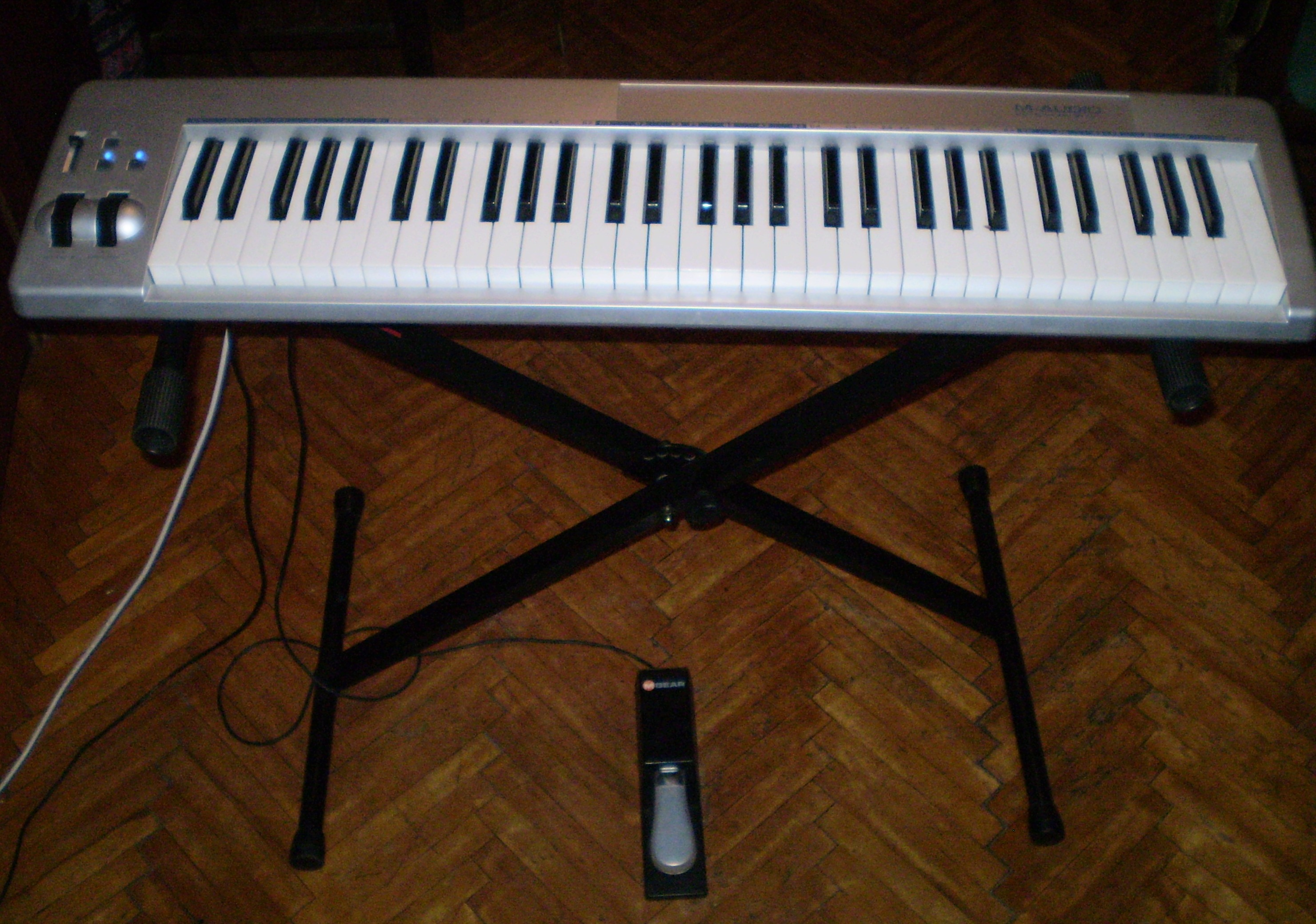 MIDI-keyboard M-audio